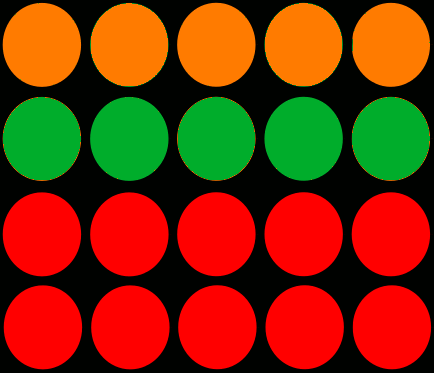 Diagram showing all possible Formula One start lights as seen by driver. Not all lights are on at any particular time.